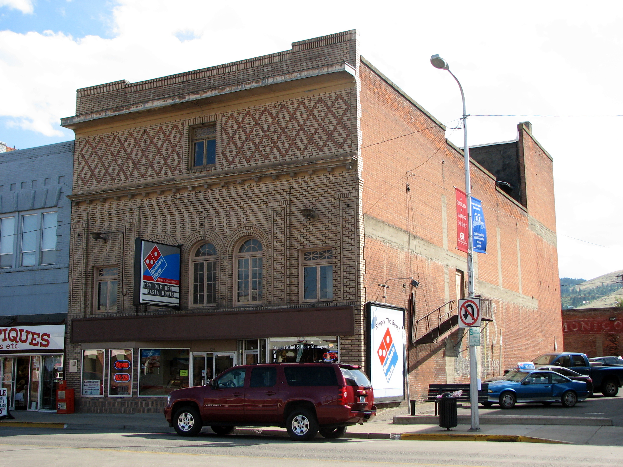 The historic Liberty Theater (built 1910), located at 1008-1010 Adams Avenue in La Grande, Oregon, United States, is listed on the US National Register of Historic Places.